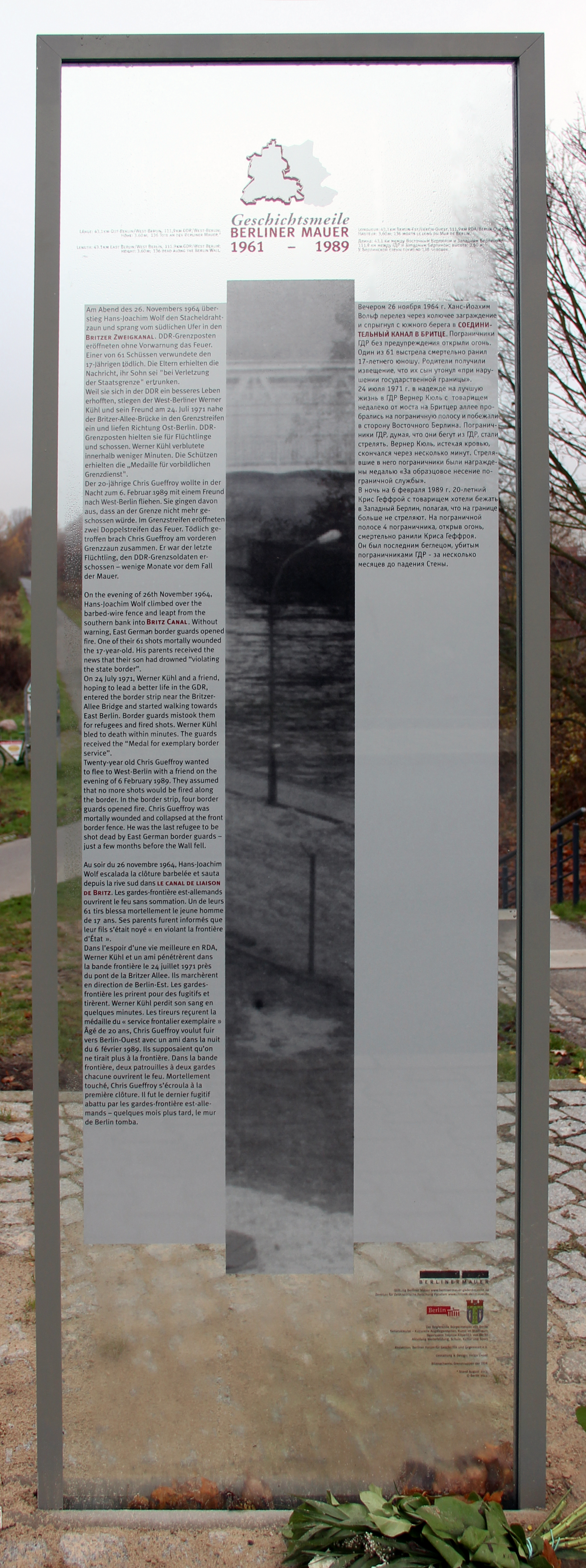 Memorial plaque, Werner Kühl, Hans-Joachim Wolf und Chris Gueffroy, Chris-Gueffroy-Allee 20, Berlin-Baumschulenweg, Germany